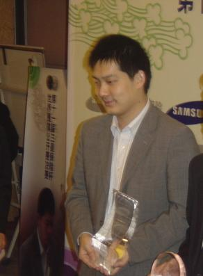 Chinese Go player Chang Hao